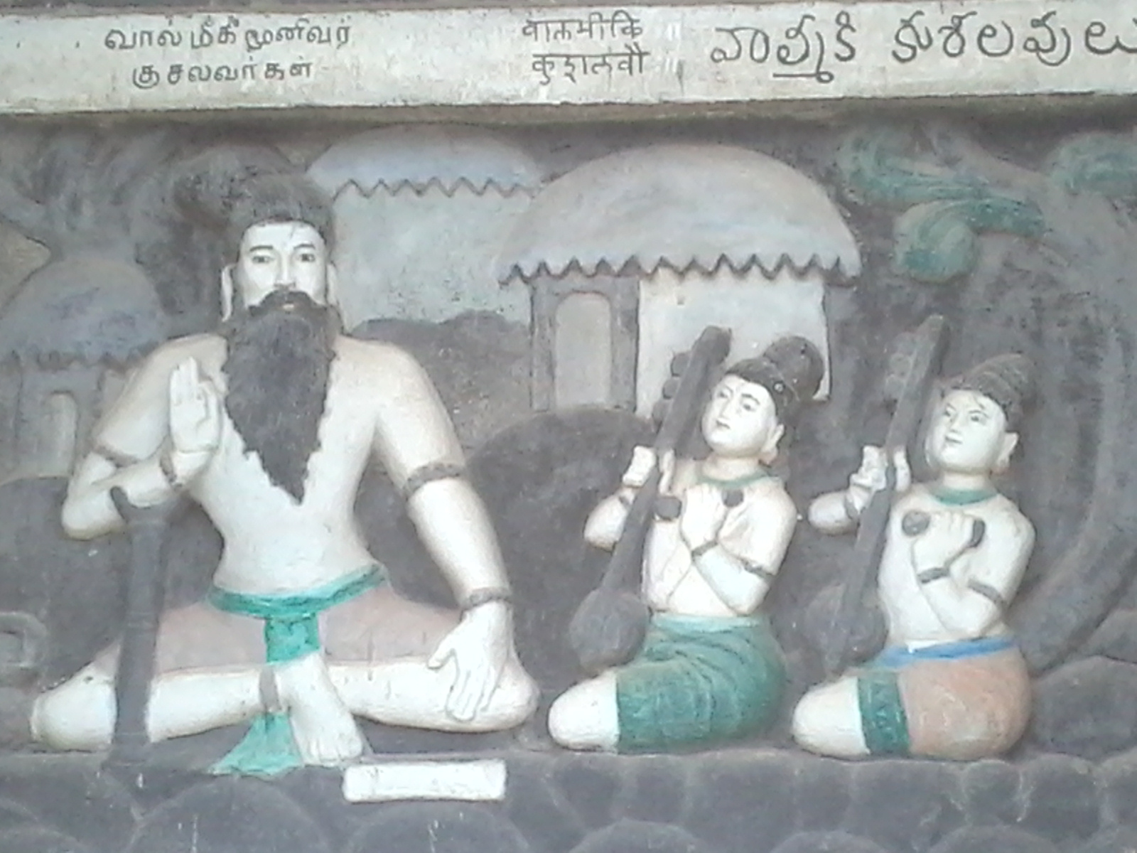 Sage Valmiki with Lava and Kusaவால்மீகி